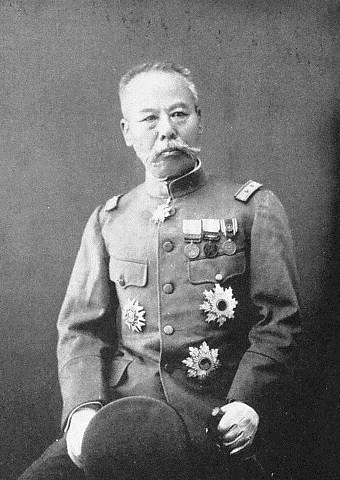 Nariyuki Miyoshi